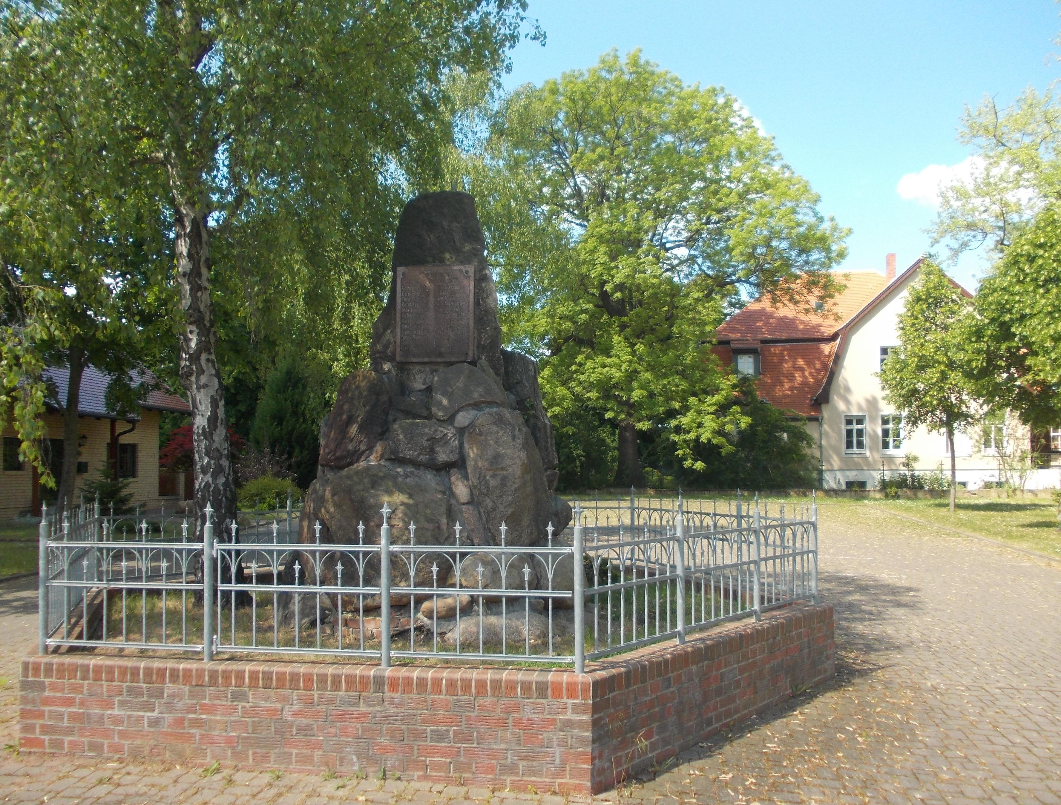 World War I memorial in Preusslitz (Bernburg, district: Salzlandkreis, Saxony-anhalt)